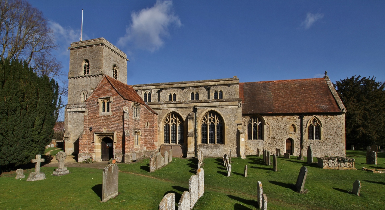 All Saints' parish church, Sutton Courtenay, Oxfordshire (formerly Berkshire), seen from the south